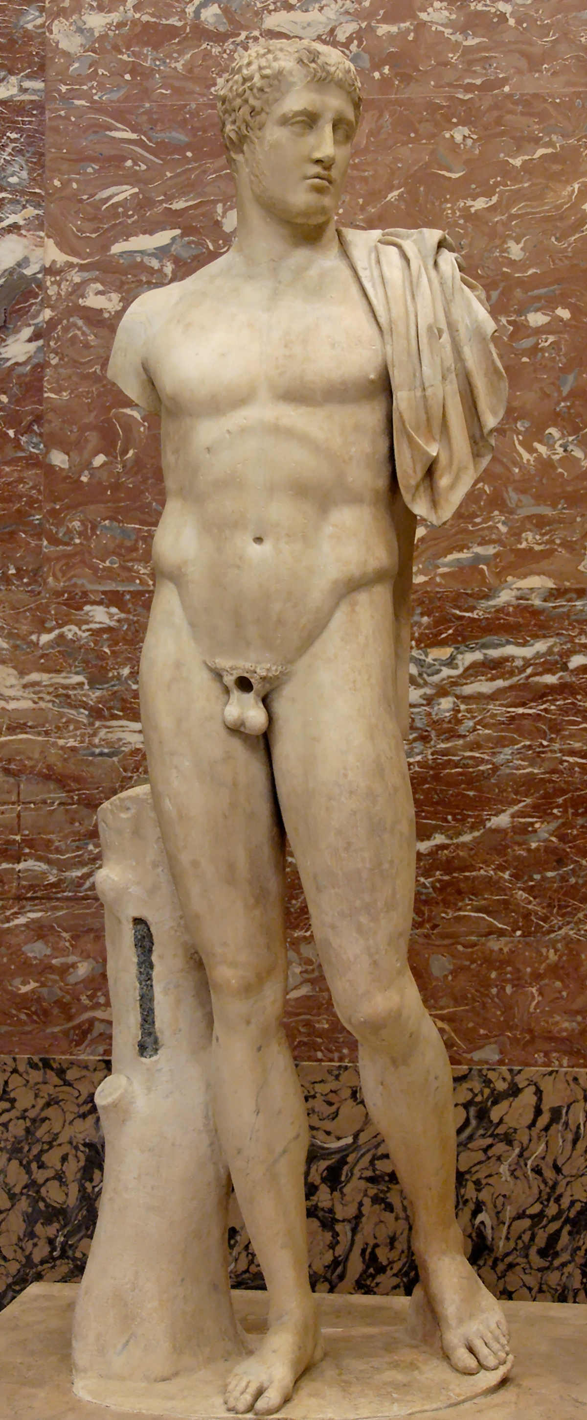 Diomedes stealing the Palladion (now lost). Marble, Roman copy from the 2nd-3rd century CE after a Greek original of the 5th century.